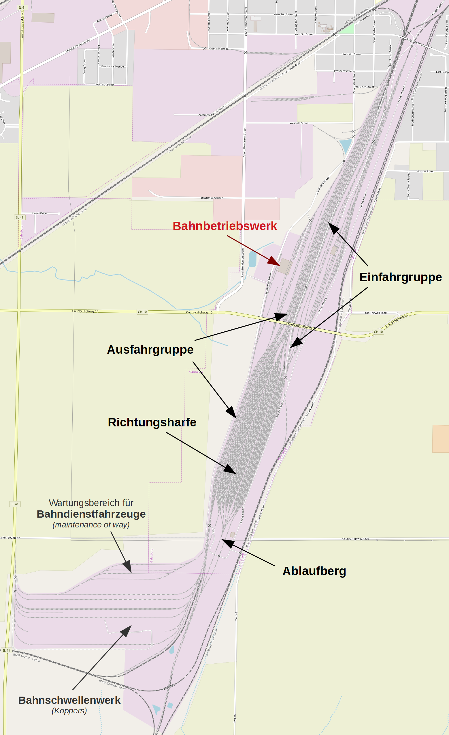 BNSF Galesburg Yard, Galesburg, Illinois. Various areas within the yard labeled in German.